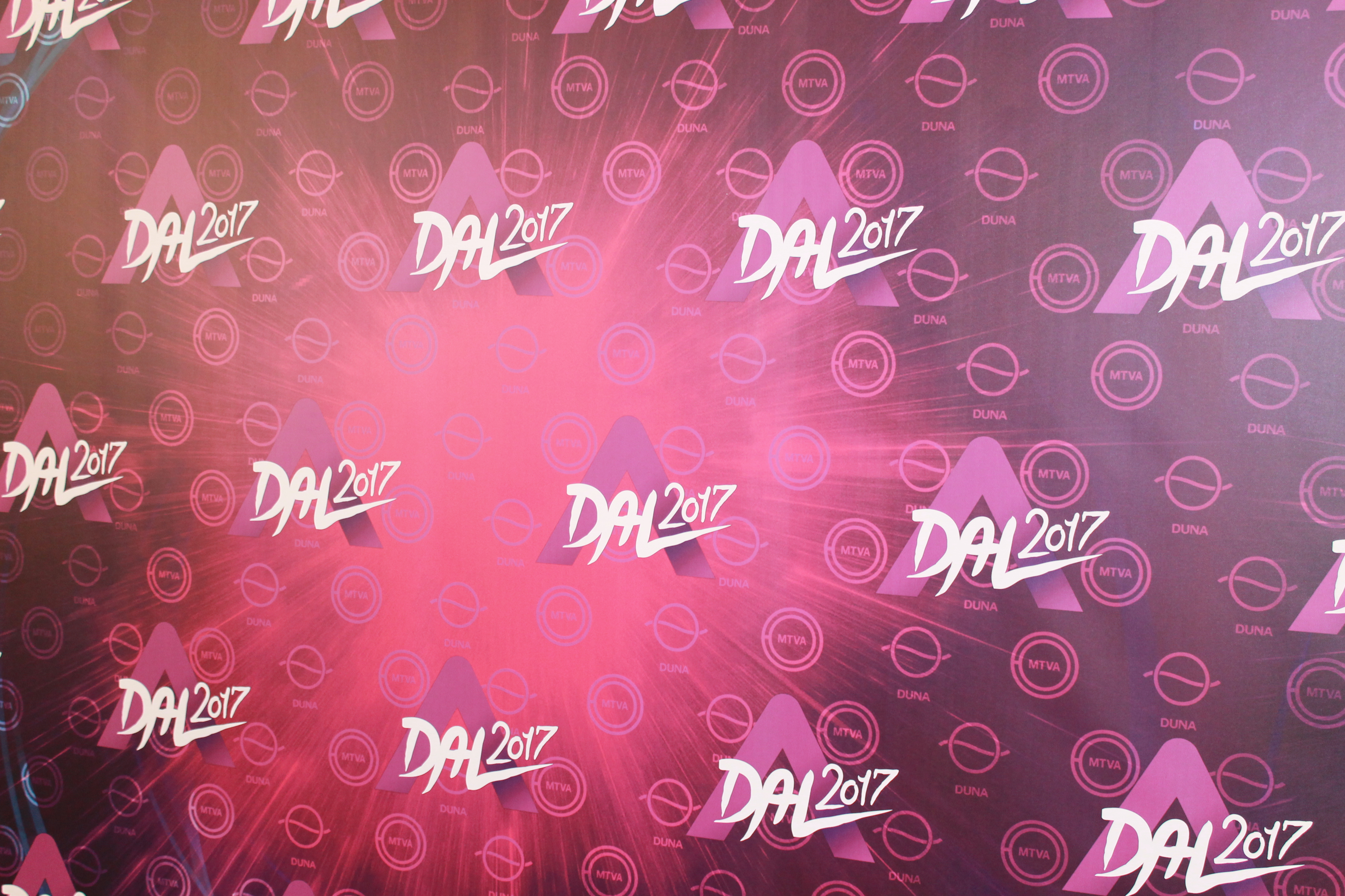 A Dal 2017, Dal-Wall